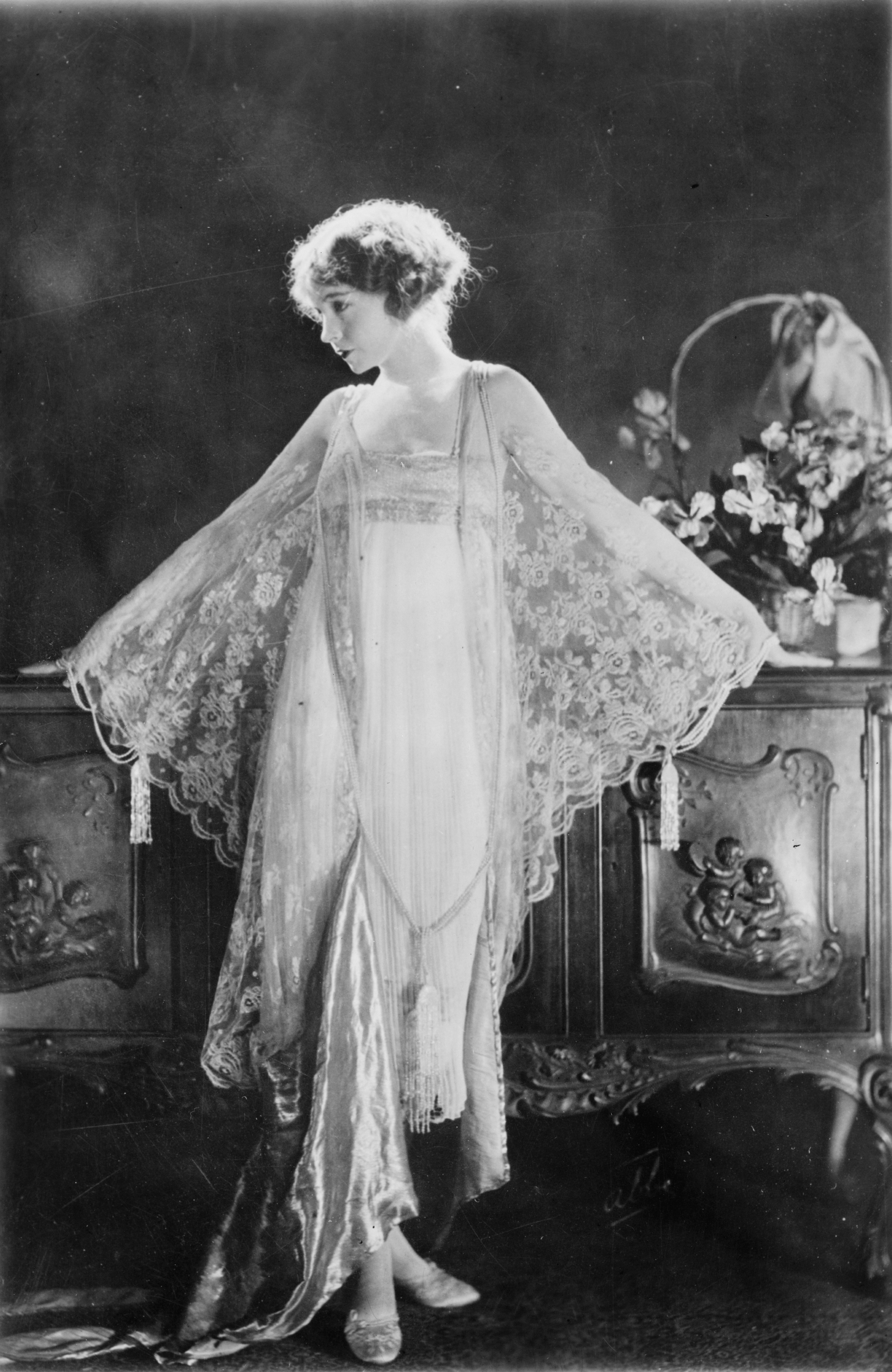 Lillian Gish, full-length portrait, wearing pink morning gown of chiffon and lace / Photo by Bain News Service, New York.